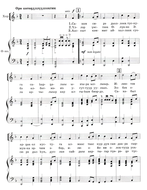 National Anthem of Sakha Republic (Yakutia)